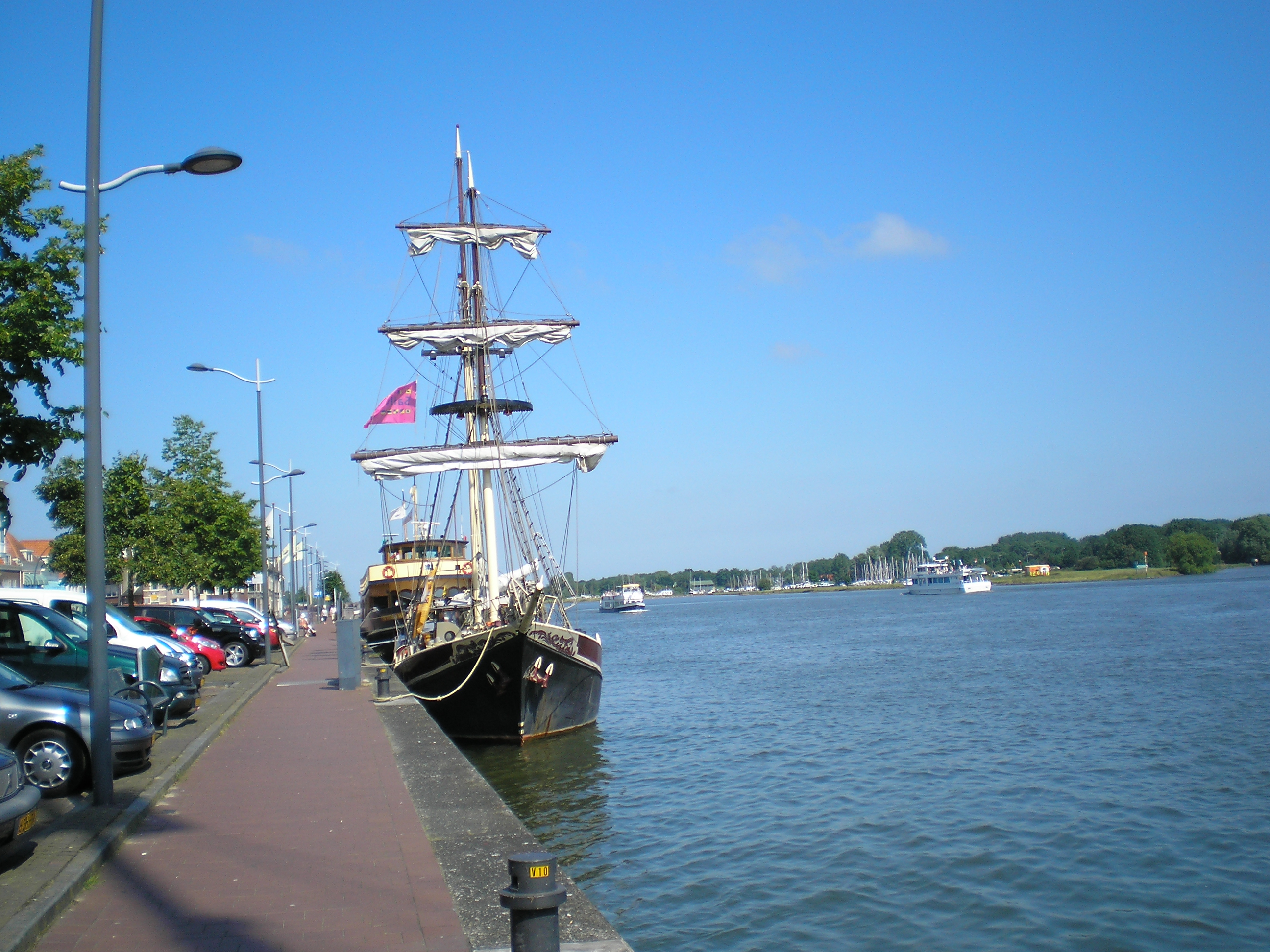 The IJssel in Kampen in the Netherlands